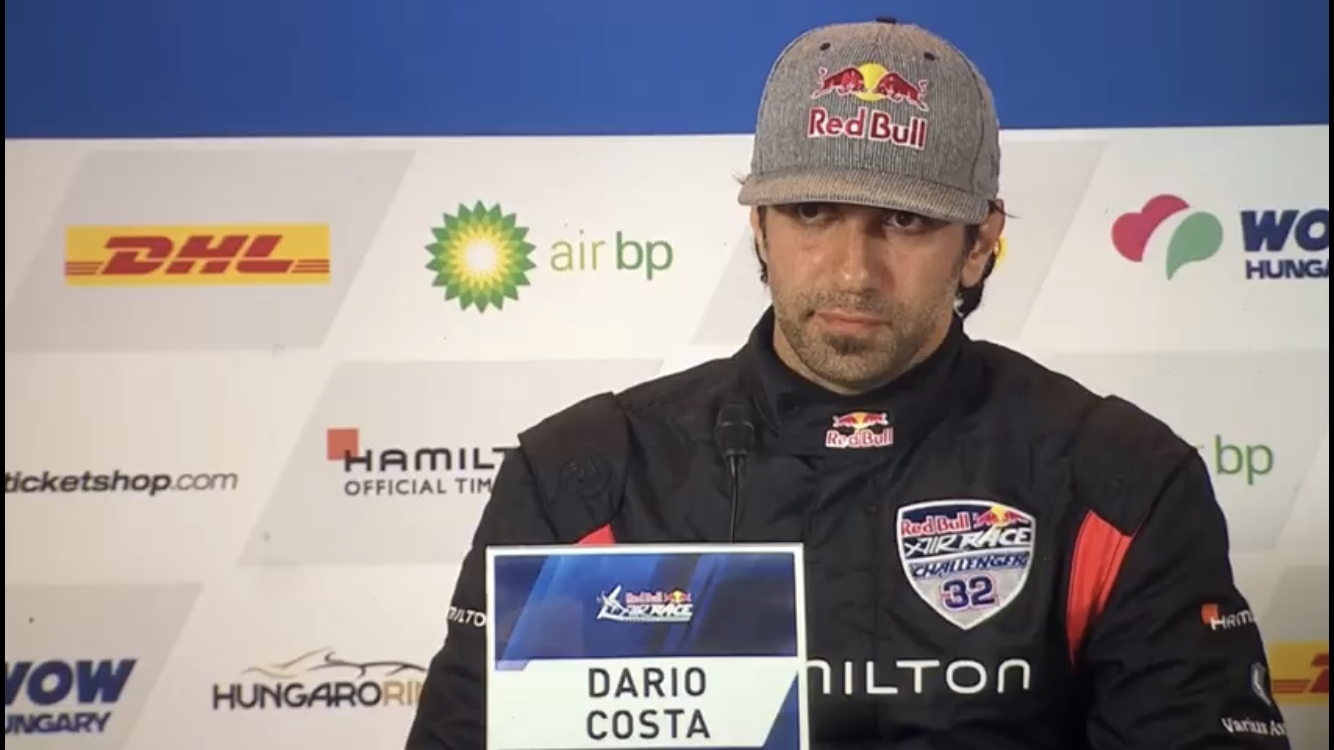 Race pilot Dario Costa during press conference for his win at the Lake Balaton Red Bull Air Race 2019